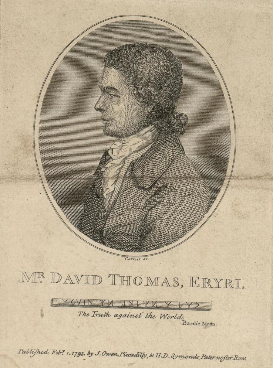 A portrait from the Welsh Portrait Collection at the National Library of Wales. Depicted person: David Thomas – Welsh poet